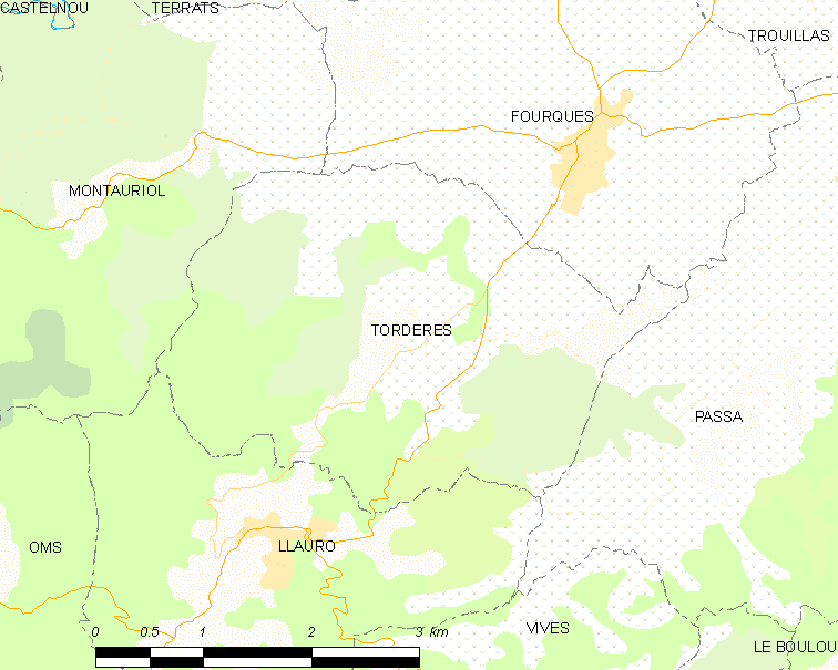 Map of French municipality